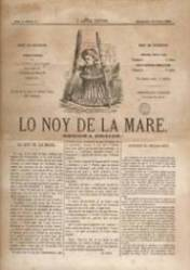 Front cover of the catalan magazine Lo Noy de la mare